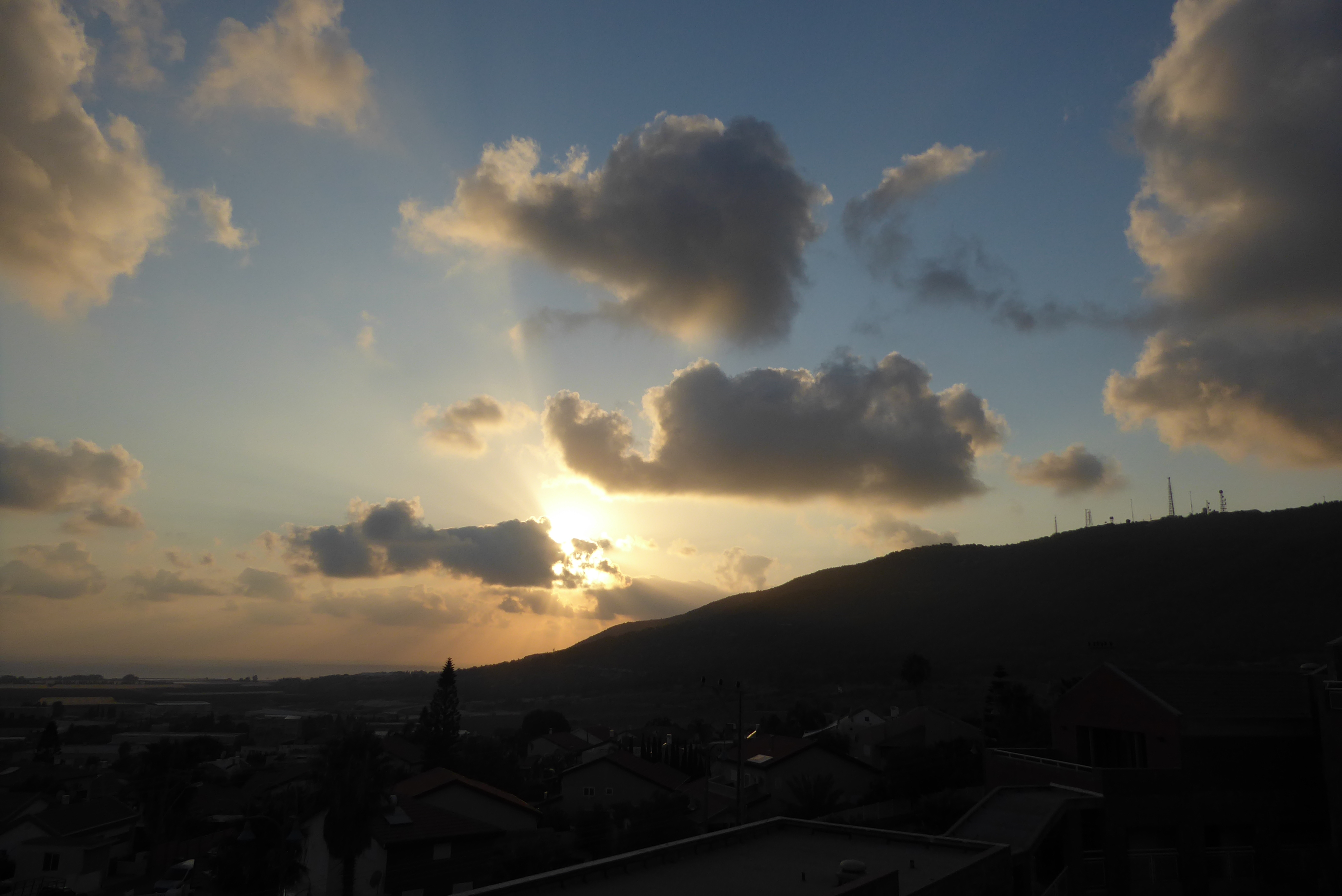 Shlomi (Hebrew: שְׁלוֹמִי) is a town in the Northern District of Israel.